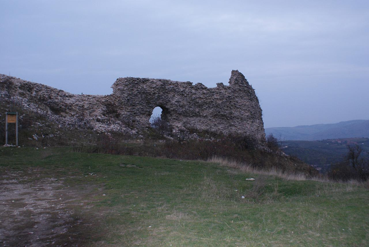 Remains of Novo Brdo fortress.